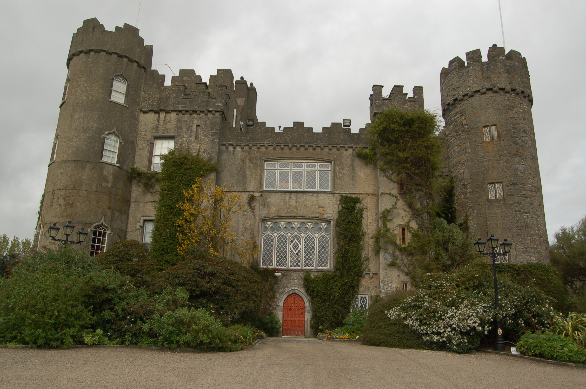 Malahide Castle everything is green or grey... except the little red door...